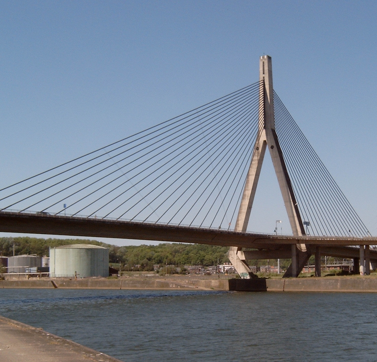 Ahin, bridge across the Meuse